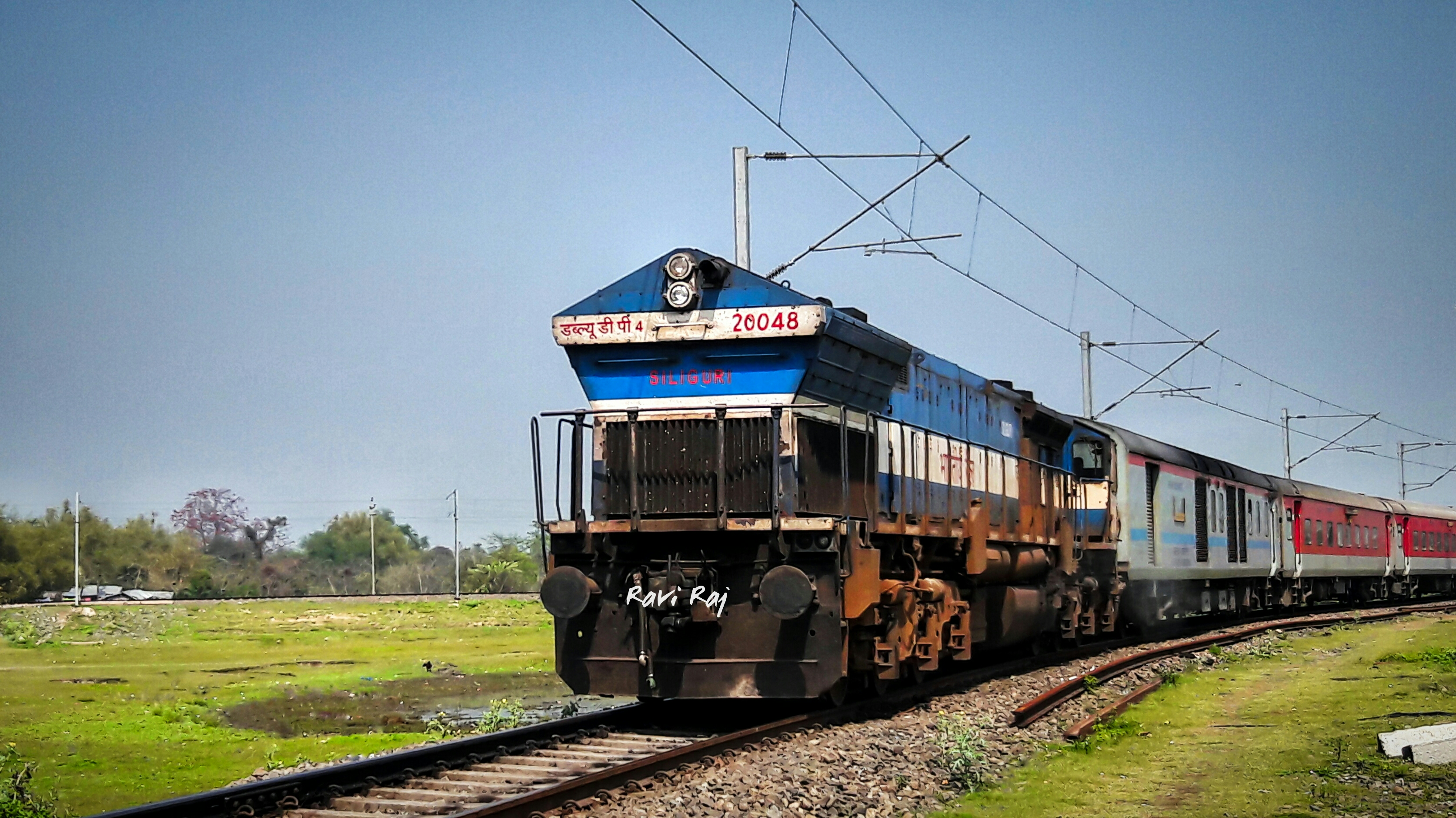 SGUJ WDP4 20048 leading (March,2020)